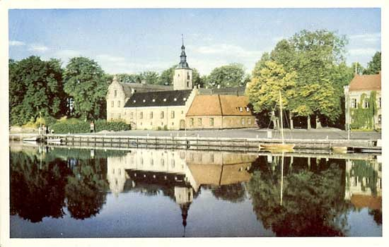 Halmstads Slott 1941